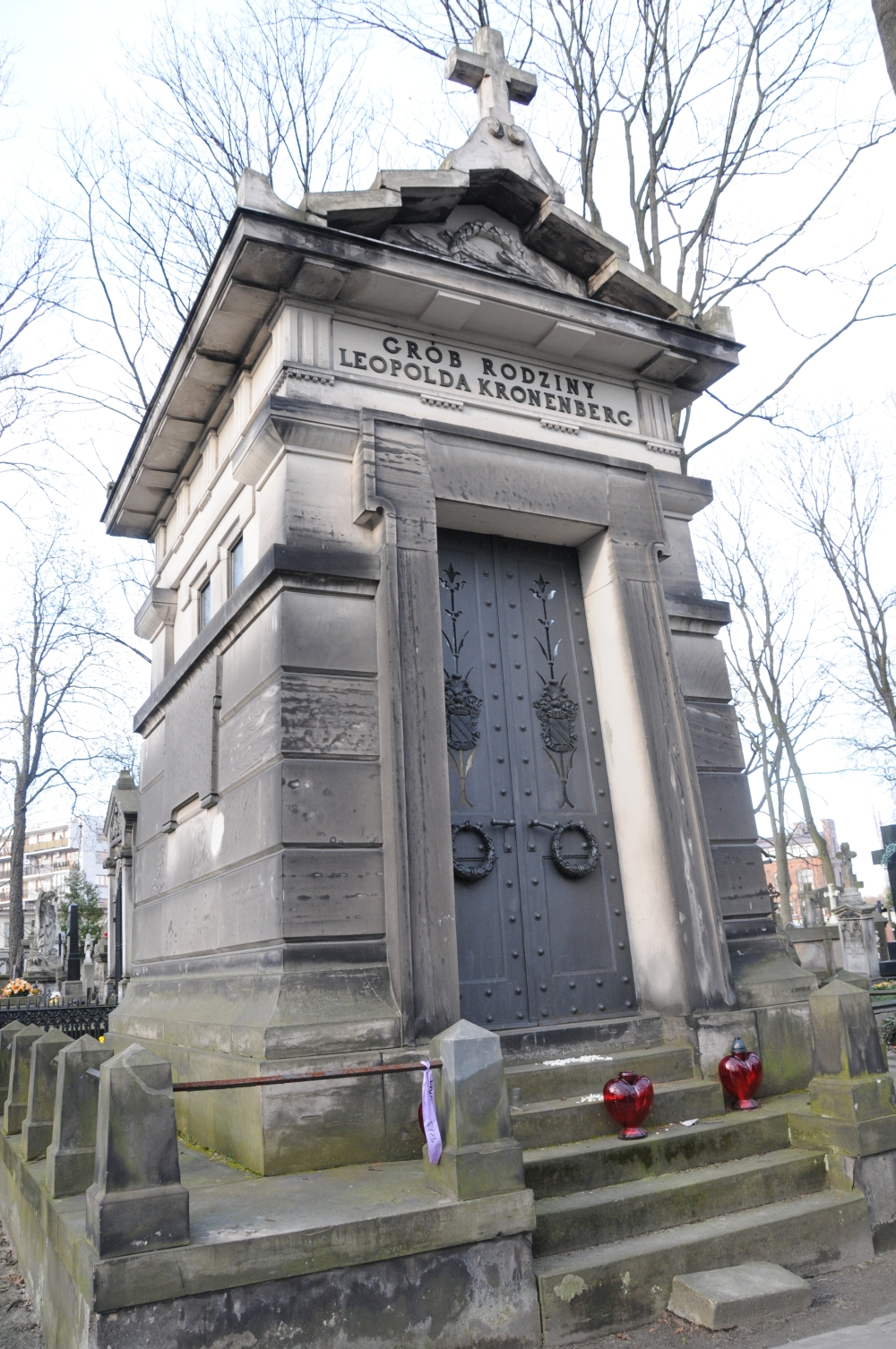 Family Tomb of Leopold Julian Kronenberg. Powązki Cemetery, Warsaw.